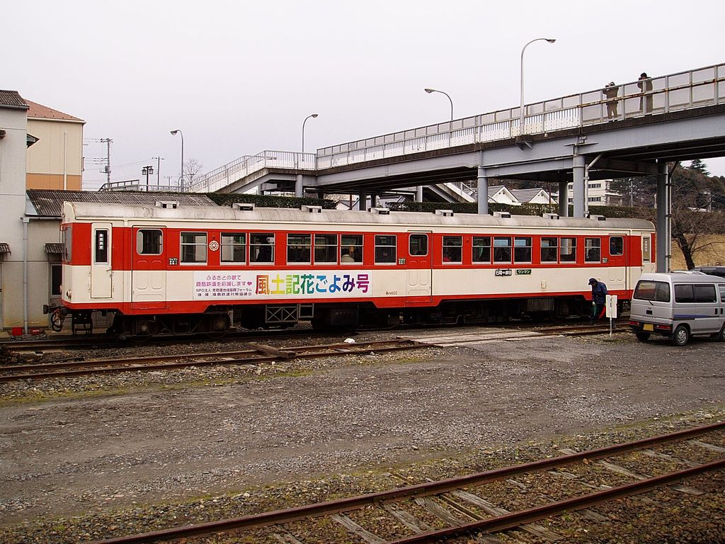 Kashima Railway DMU type Kiha600 No.602